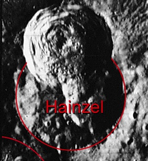 Cropped Lunar Orbiter - IV image iv 136 h2